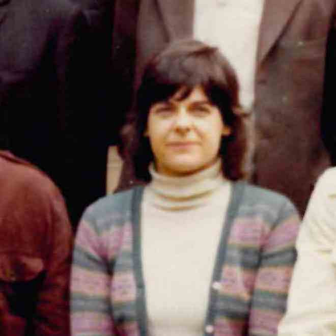 Mary Susan McIntosh (1936–2013) sociologist, feminist, political activist and campaigner for lesbian and gay rights in the UK. A 1974 colour photograph from her time as a Research Fellow at Nuffield College, Oxford.